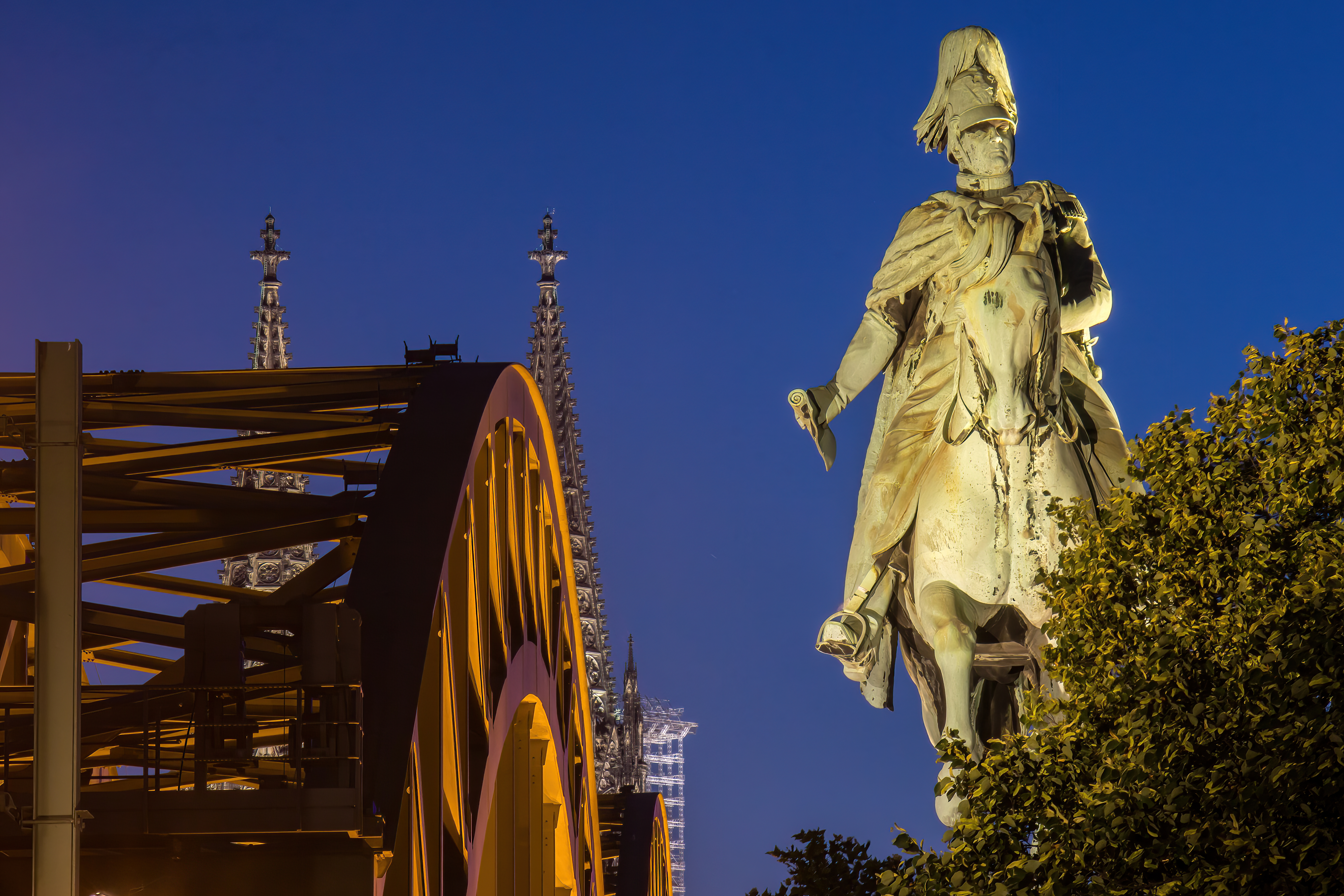 Statue of Frederick William IV of Prussia at the "Hohenzollernbrücke" in Cologne, Germany, sculpted by Gustav Blaeser.